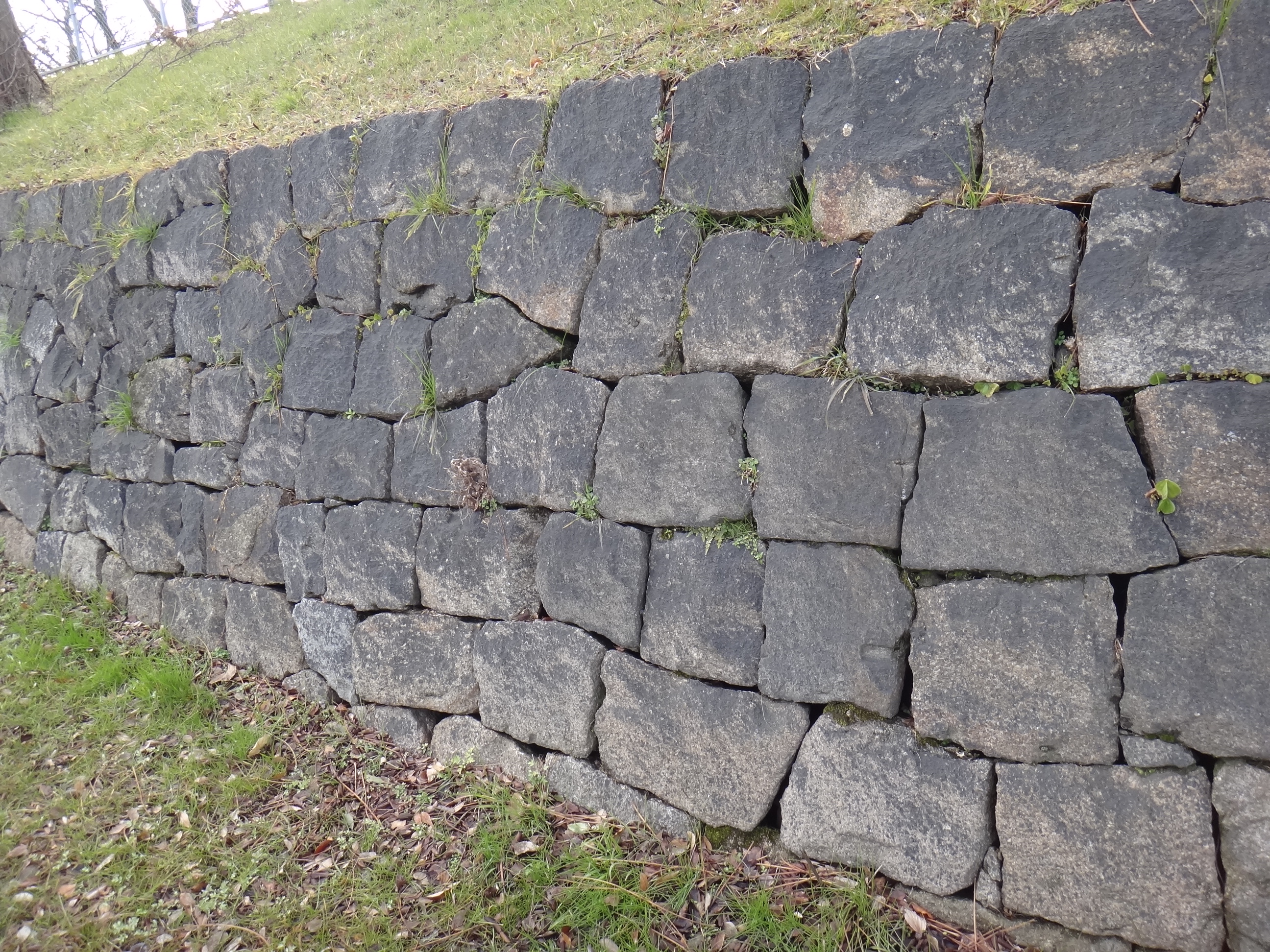 Masonry of Sakai battery